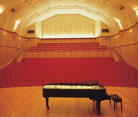 Ian Roach Concert Hall Scotch College, Melbourne